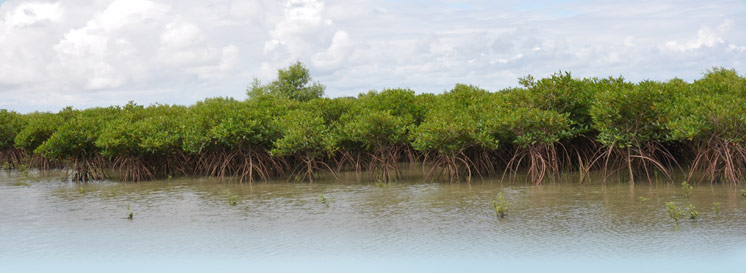 Mangroove Forest Bhitarkanika